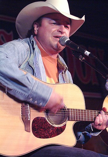 Mark Chesnutt. Image cropped slightly by Ali'i.